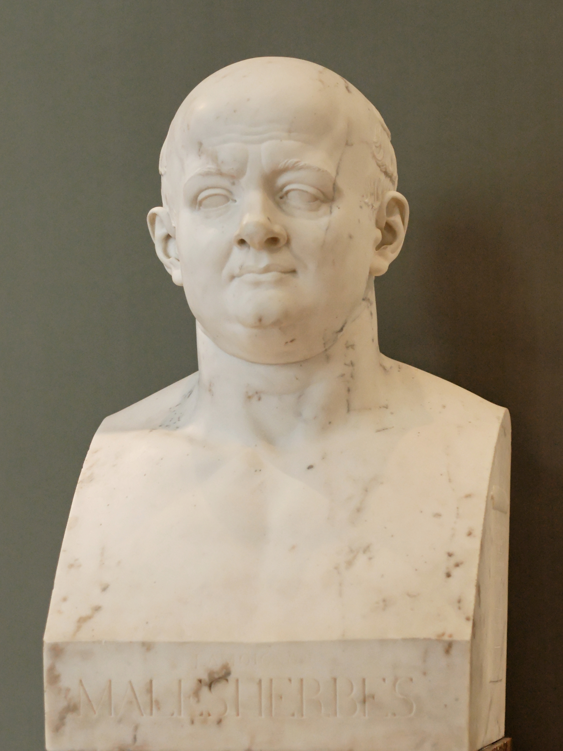 Portrait of Lamoignon de Malesherbes, counsel for the defence of Louis XVI.